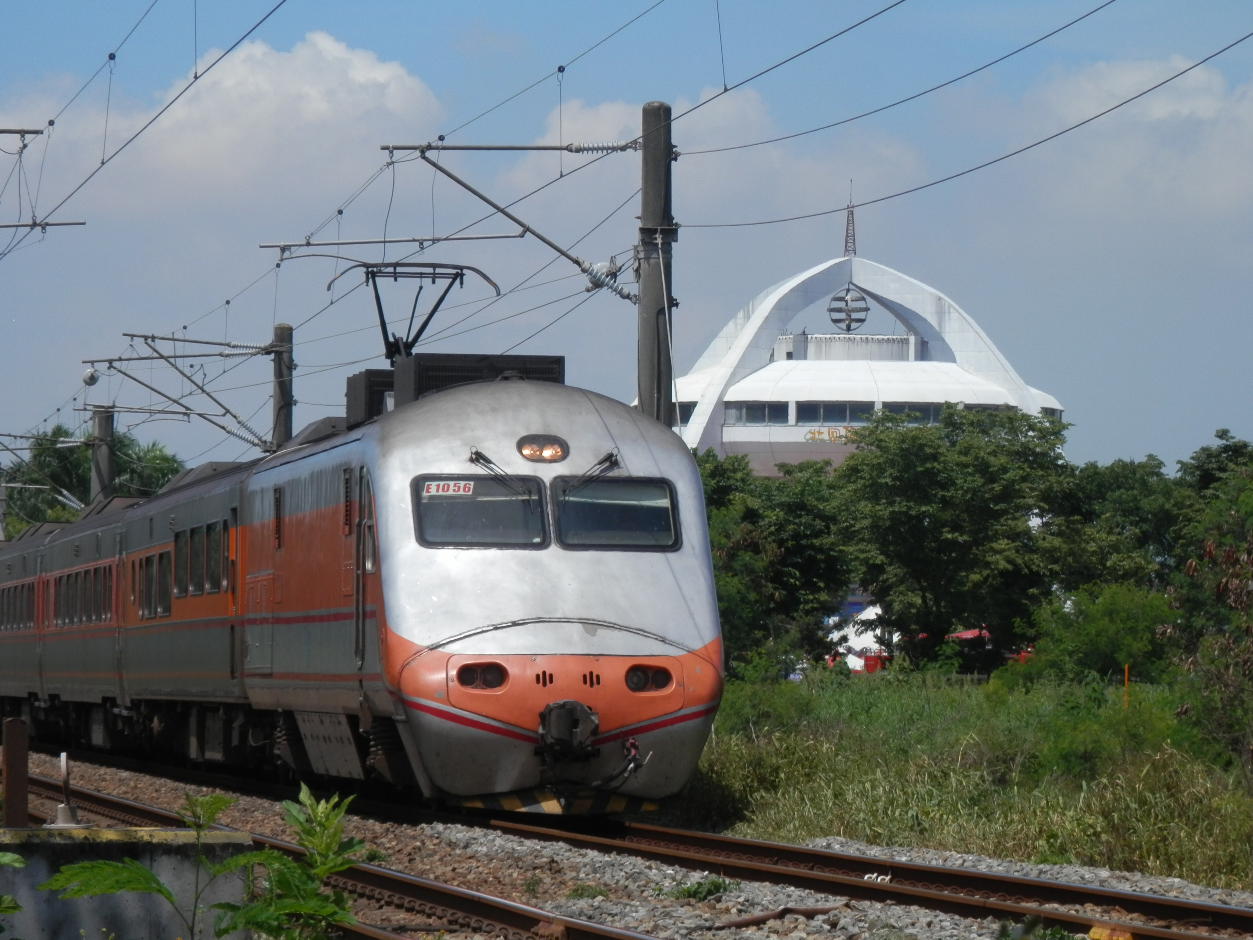 TRA Tze-Chiang Ltd-Exp Type Push–pull train type E1000 at Trunk Line (Southern Section) between Shuishang Station and Chiayi Station